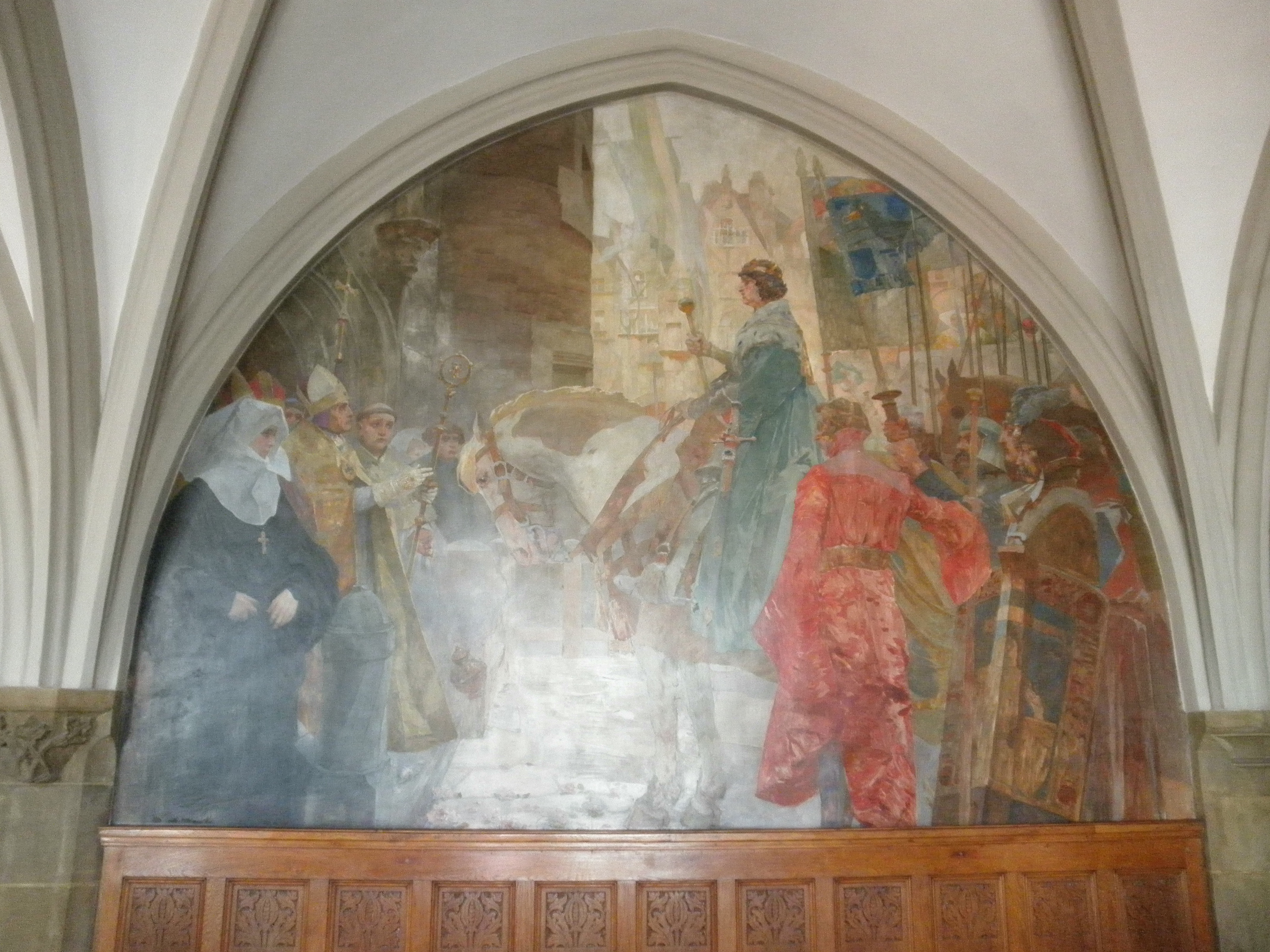 Fresco in ceremonial hall in town hall, Olomouc, Czech Republic.